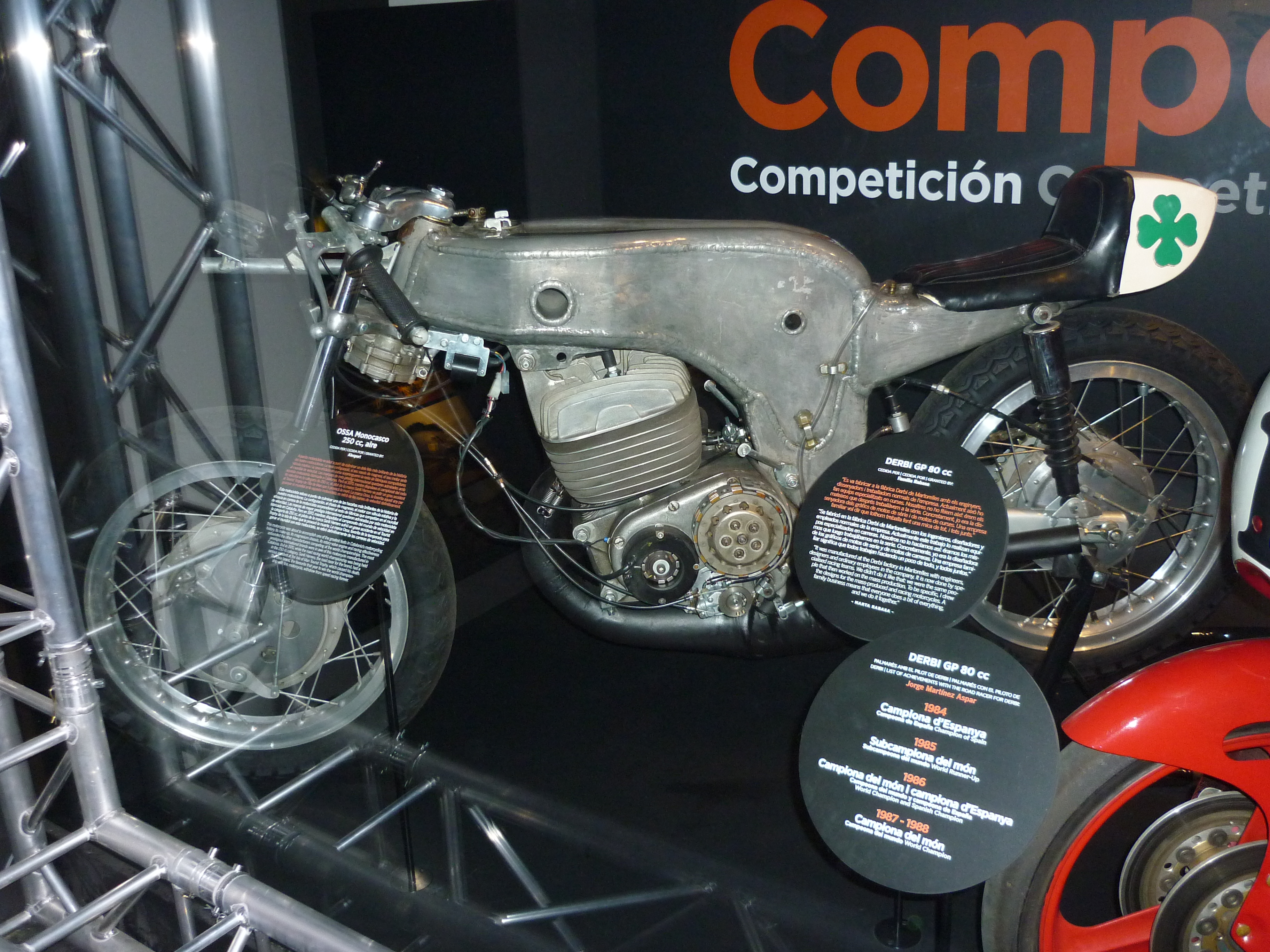 OSSA Monocoque 250cc, 1968. Created by Eduard Giró and ridden by Santiago Herrero, this bike was regarded as the fastest single cylinder motorbike at the time and won several Grand Prix between 1968 and 1970. Herrero died when he crashed while riding it at 1970 Isle of Man TT.